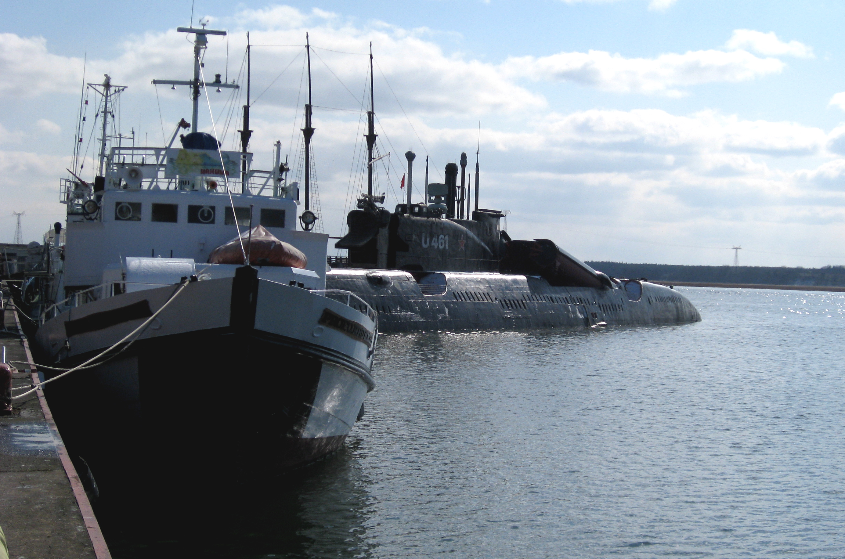 Port of Peenemünde, Germany with russian submarine U 461 which is accessible for visitors.